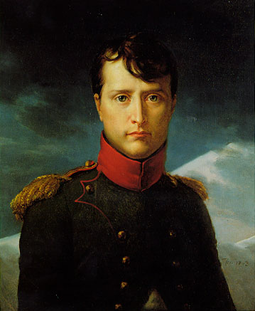 Napoleon Bonaparte